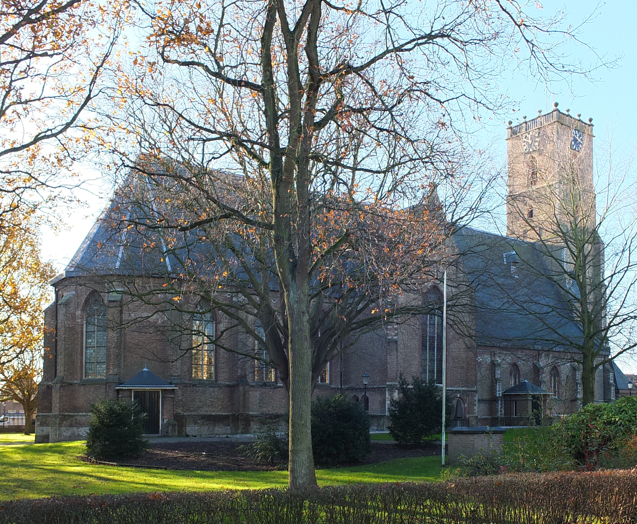 The Dutch Reformed Church at Middelharnis, a late-gothic church. The tower was built after the model of Antwerp's St Michael's Convent, because this convent had paid for the dikes surrounding Middelharnis. The spire was demolished in 1811. The church burnt down in 1904 and 1948, both times it was rebuilt to the old plans.